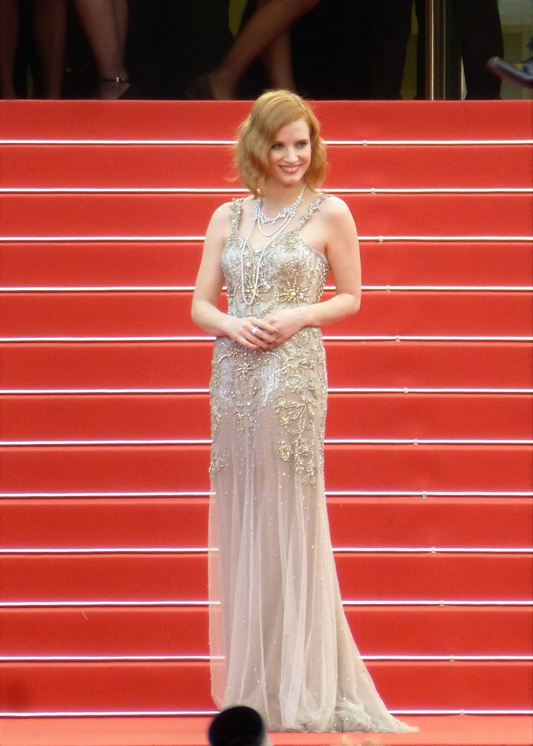 Jessica Chastain at the world premiere of Money Monster, 2016 Cannes Film Festival